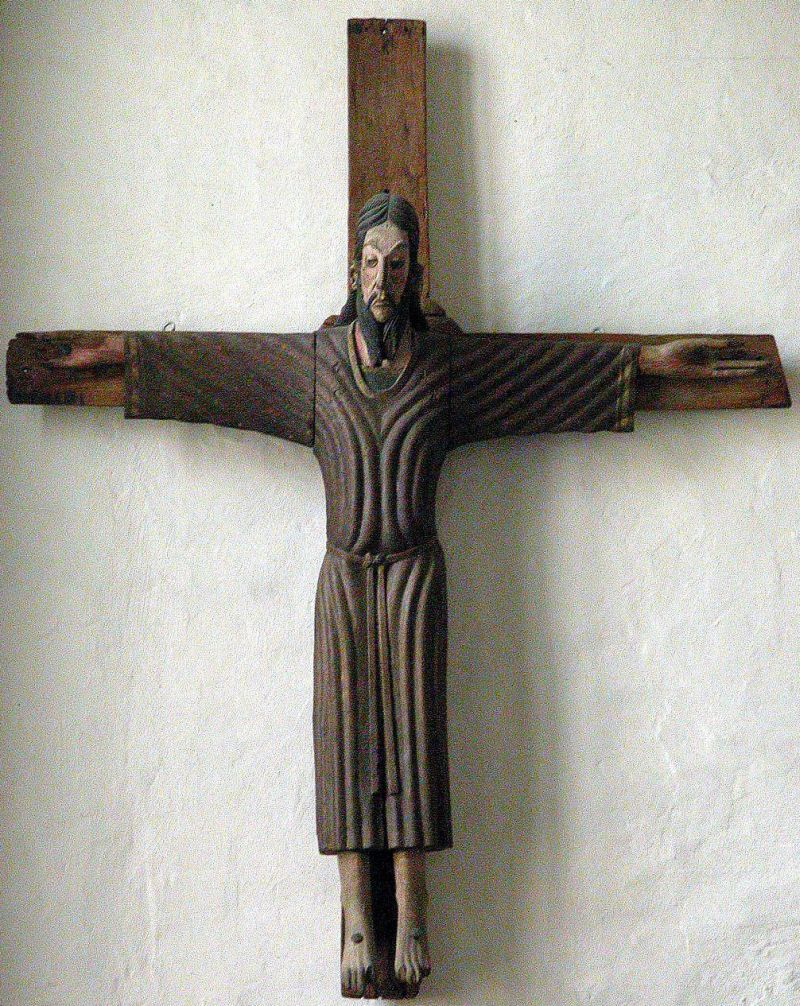 Brunswick Cathedral, Imervard's Crucifix